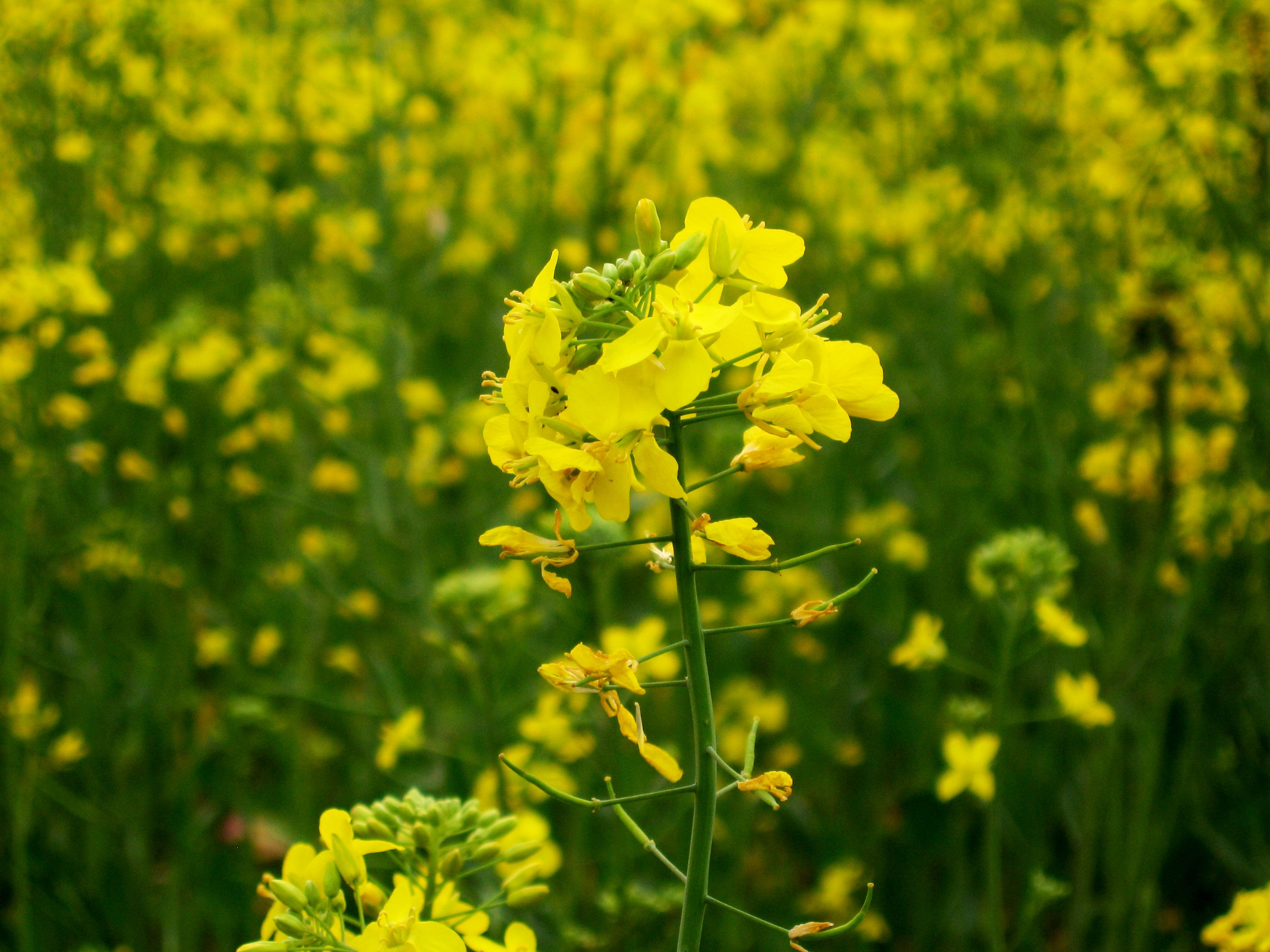 Mustards are several plant species in the genera Brassica and Sinapis whose small mustard seeds are used as a spice and, by grinding and mixing them with water, vinegar or other liquids, are turned into a condiment also known as mustard.